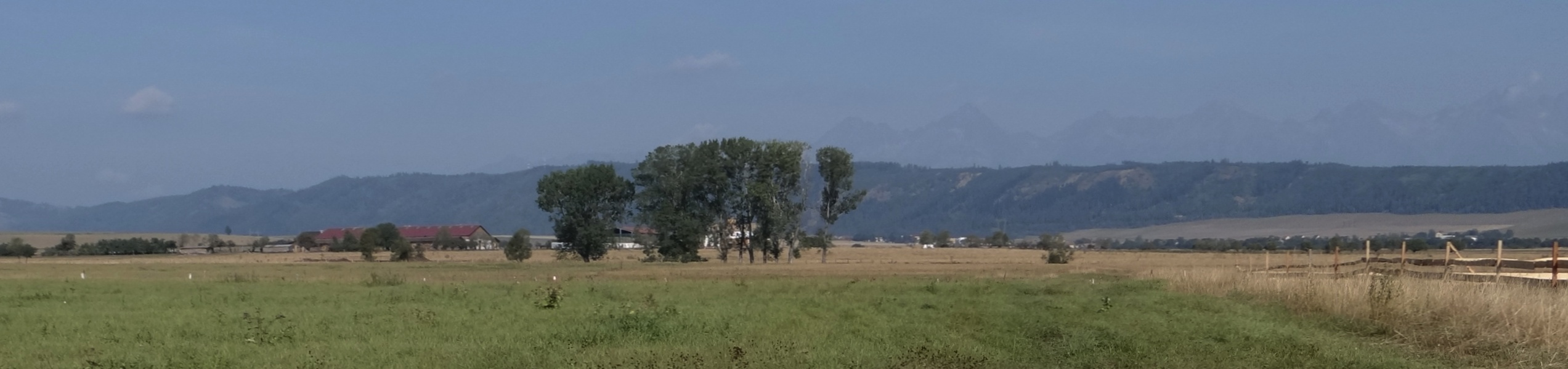 Kozie chrbty. View from Hrabušice